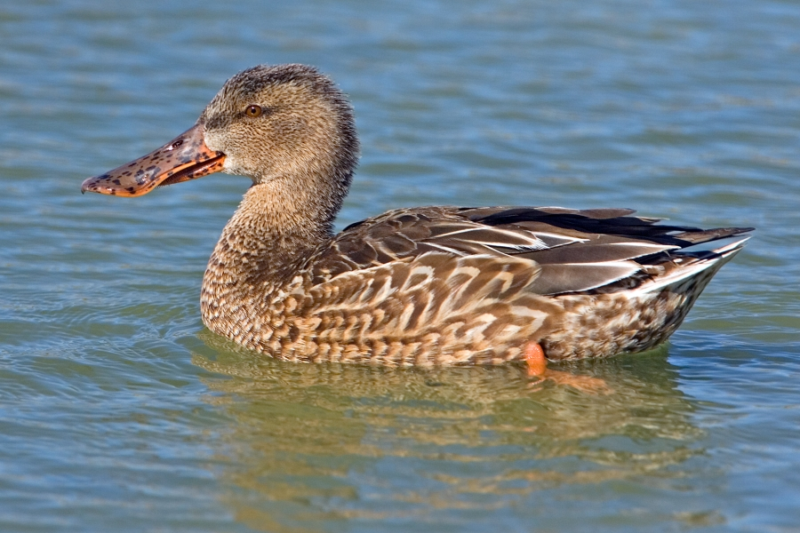 Northern Shoveler (Female) (Anas clypeata), Birding Center, Port Aransas, Texas